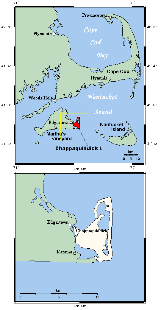 a map of Chappaquiddick Island